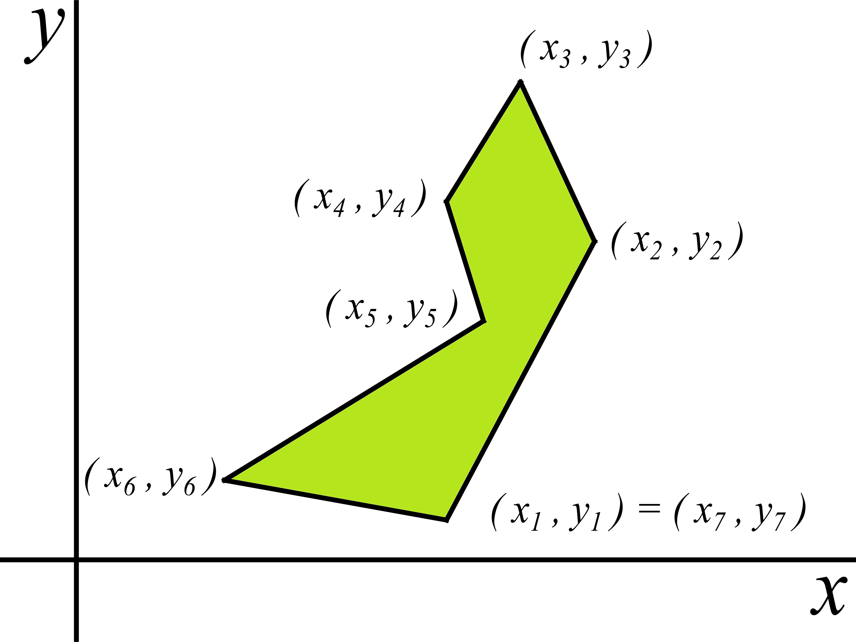 Any Polygon